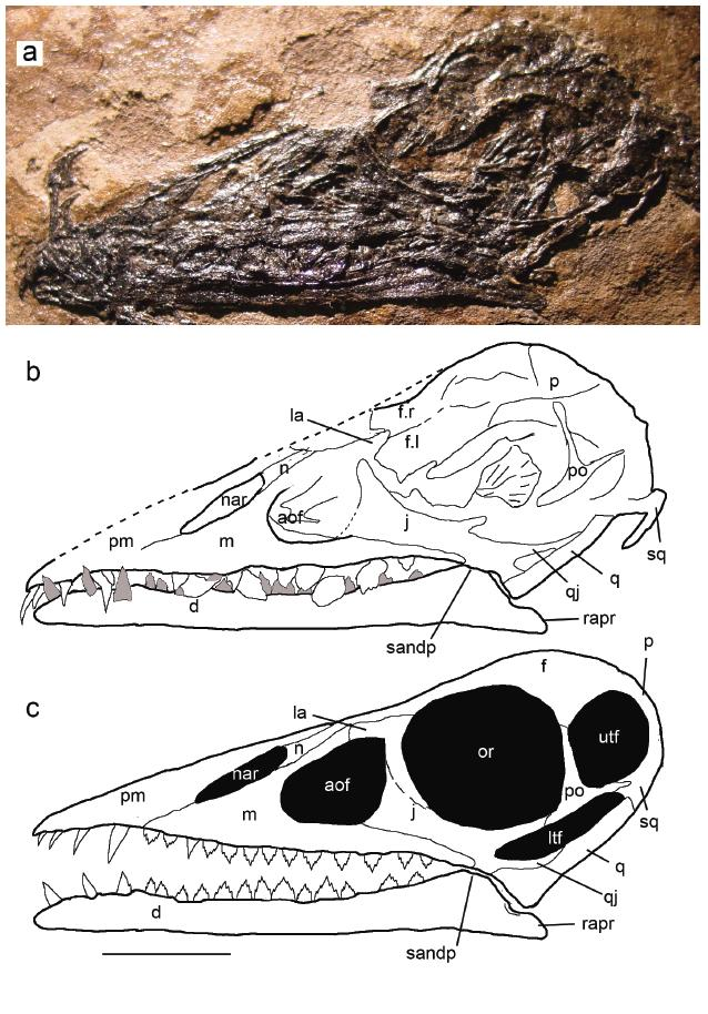 Fig. 4 - The skull of Bergamodactylus wildi (MPUM 6009). (a) Photo. (b) Drawing showing the main cranial elements with lower teeth in grey. (c) Reconstruction. Scale bar: 10 mm.